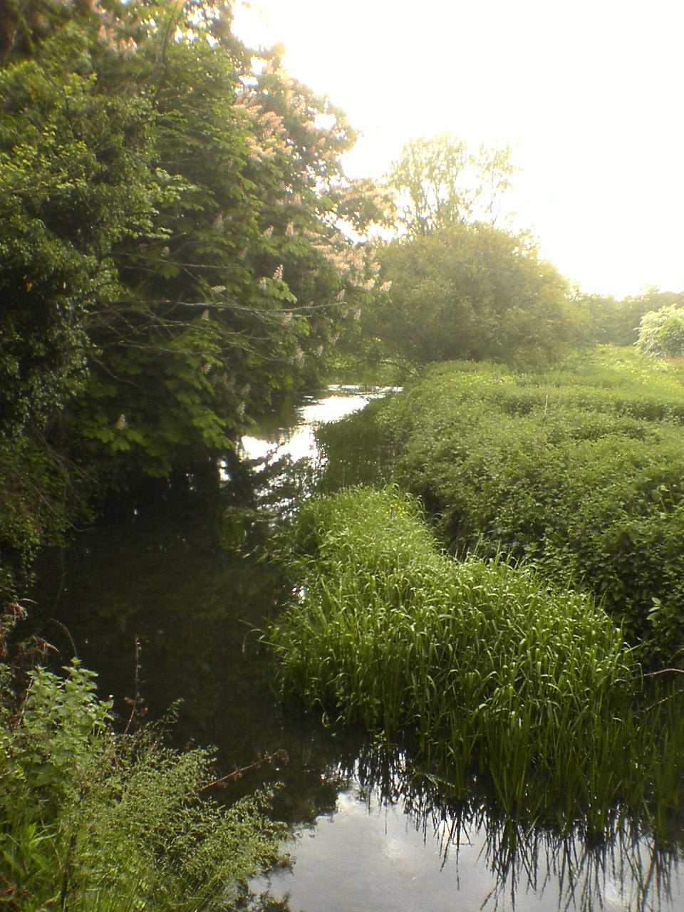 Looking upstream on the River Rib in Hertford.